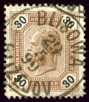 Austrian KK 30 kreuzer stamp, issue 1891, bilingual cancelled in 1899 at Blisowa-Bližejov, Bohemia (Czech Republic)